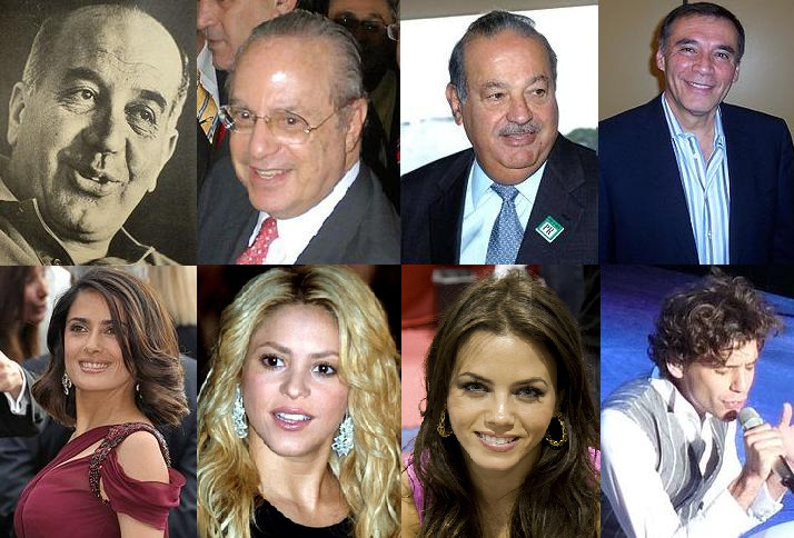 Lebanese diaspora.